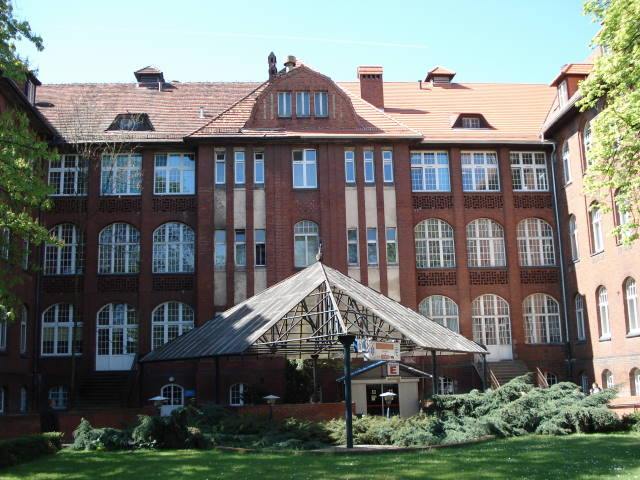 Heliodor Święcicki Clinical Hospital no. 2 of the Poznan University of Medical Sciences, formerly evangelical Diakonissenanstalt, main building